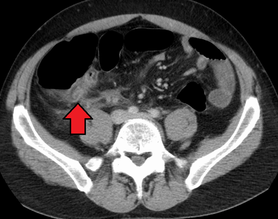 Appendicitis as seen on CT imaging